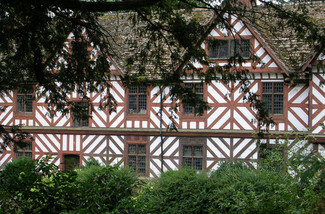 Pitchford Hall Taken from the churchyard